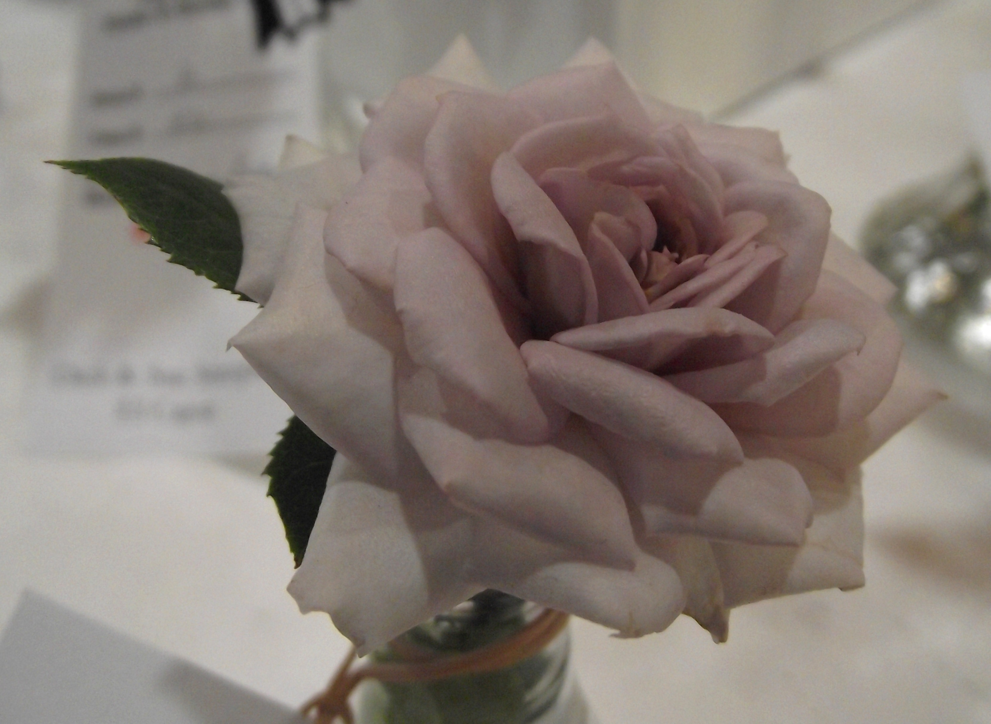 Rosa 'Cafe Ole' at the San Diego County Fair, California, USA. Identified by exhibitor's sign.